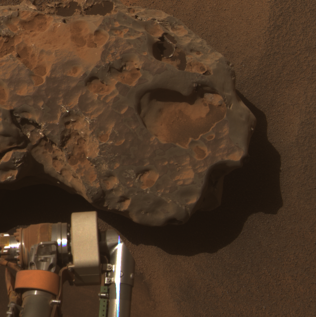 This is an image of the meteorite that NASA's Mars Exploration Rover Opportunity found and examined in September 2010. Opportunity's cameras first revealed the meteorite in images taken on Sol 2363 (Sept. 16, 2010), the 2,363rd Martian day of the rover's mission on Mars. This view was taken with the panoramic camera on Sol 2371 (Sept. 24, 2010). The science team used two tools on Opportunity's arm -- the microscopic imager and the alpha particle X-ray spectrometer -- to inspect the rock's texture and composition. Information from the spectrometer confirmed that the rock is a nickel-iron meteorite. The team informally named the rock "Oileán Ruaidh" (pronounced ILL-lawn ROO-ah), which is the Irish language name for an island off the coast of County Donegal in Ireland. Opportunity departed Oileán Ruaidh and resumed its journey toward the mission's long-term destination, Endeavour Crater, on Sol 2374 (Sept. 28, 2010) with a drive of about 100 meters (328 feet). This view, presented in approximately true color, combines component images taken through three Pancam filters admitting wavelengths of 601 nanometers, 535 nanometers and 482 nanometers.